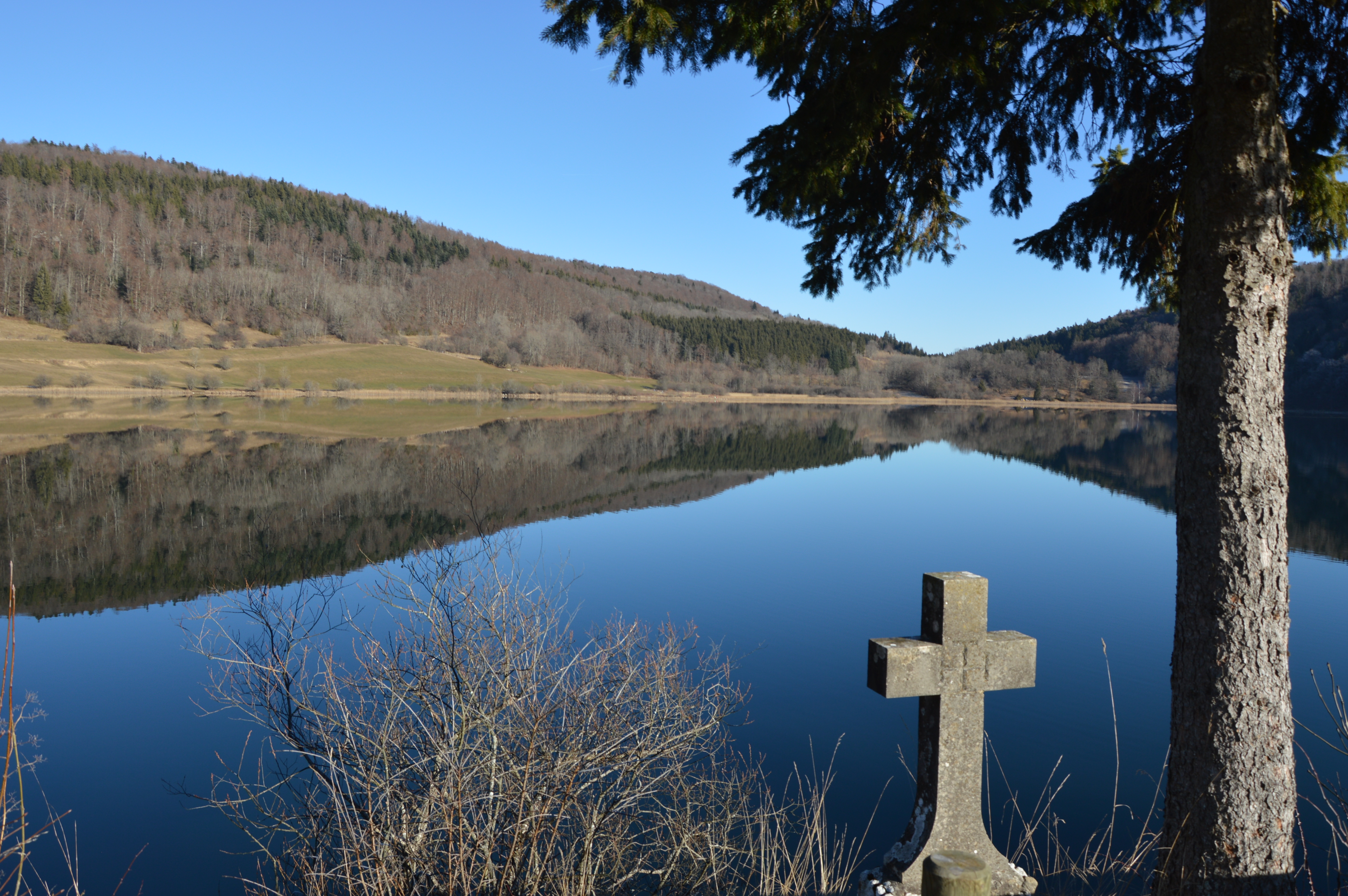 View from the southwestern shore of the Lac de Narlay, Jura, France.